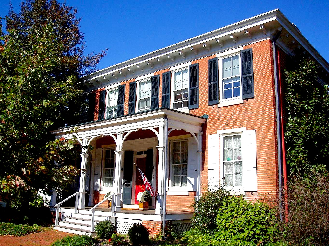 Historic home on Main St